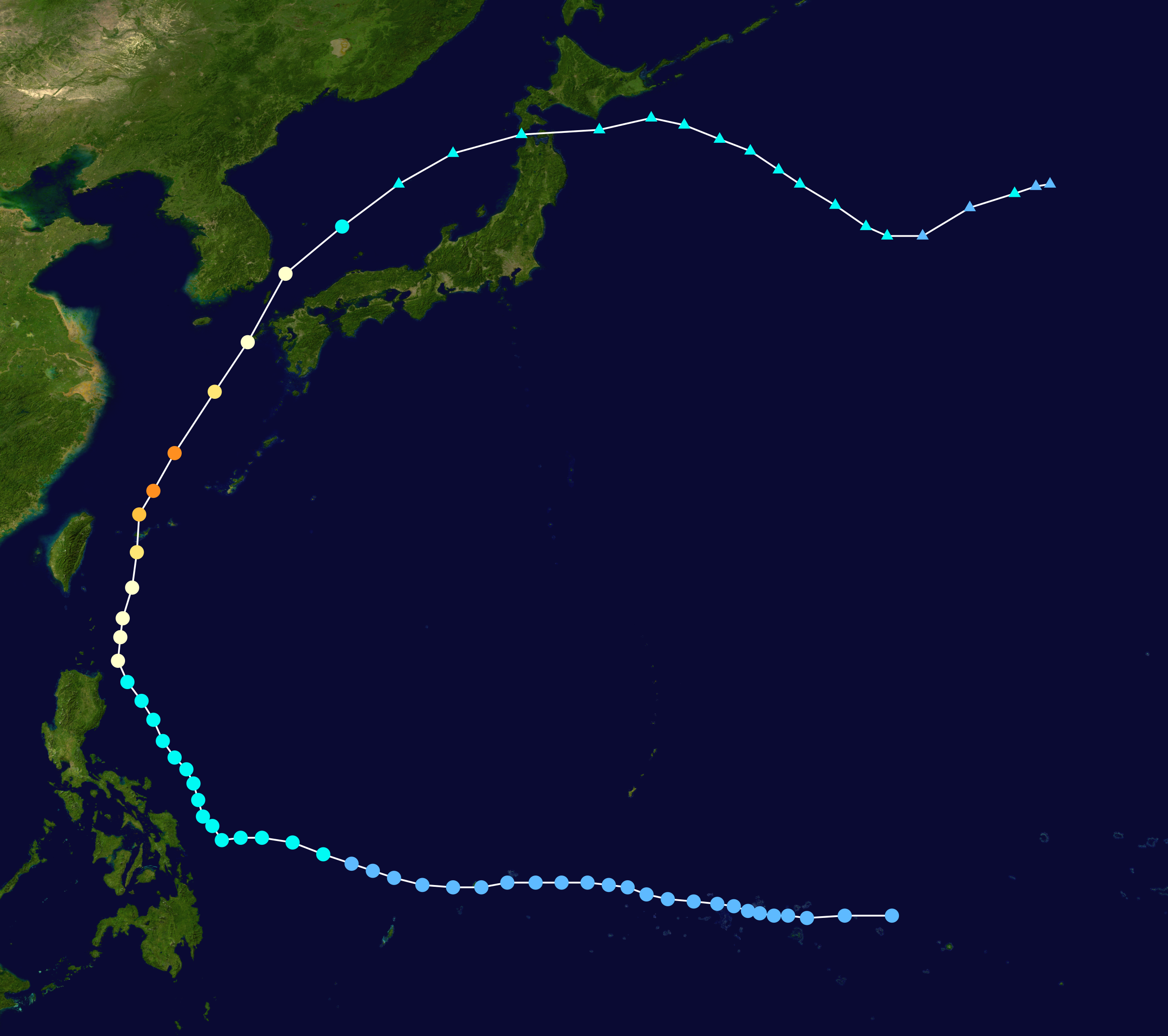 Typhoon Soudelor 2003 track. Uses the color scheme from the Saffir-Simpson Hurricane Scale.